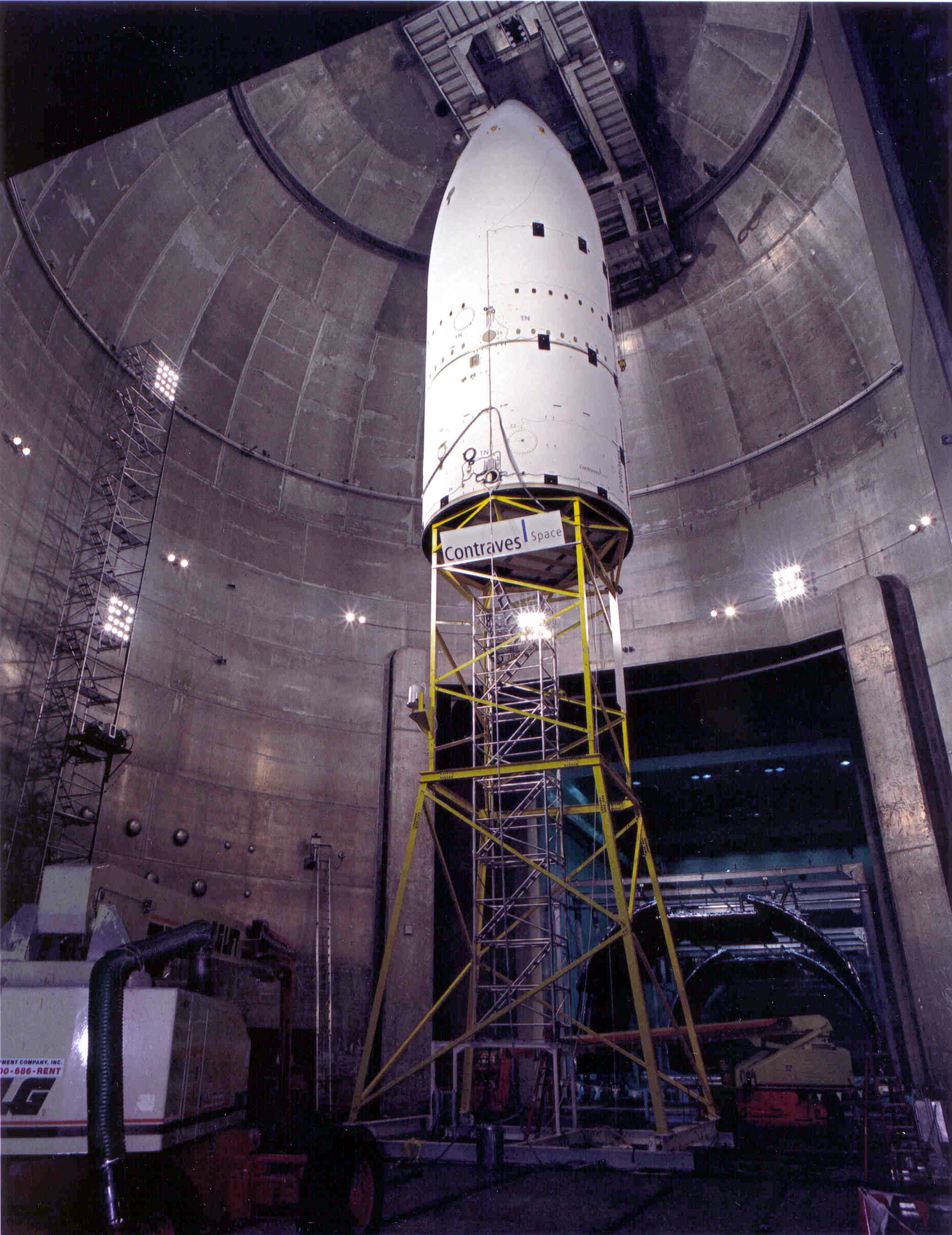 Ariane 5 Payload Fairing Before Jettison Test - When it was constructed, the Space Power Facility (SPF) was the world's largest vacuum chamber. It stands more than 122 feet high, 100 feet in diameter and provides a vacuum environment for the study of space propulsion. Originally commissioned for nuclear-electric propulsion studies, the SPF has been recommissioned for current and future use in the ongoing research and development of space propulsion systems. The SPF is located at Plum Brook Station, part of the John H. Glenn Research Center at Lewis Field, Cleveland, Ohio.